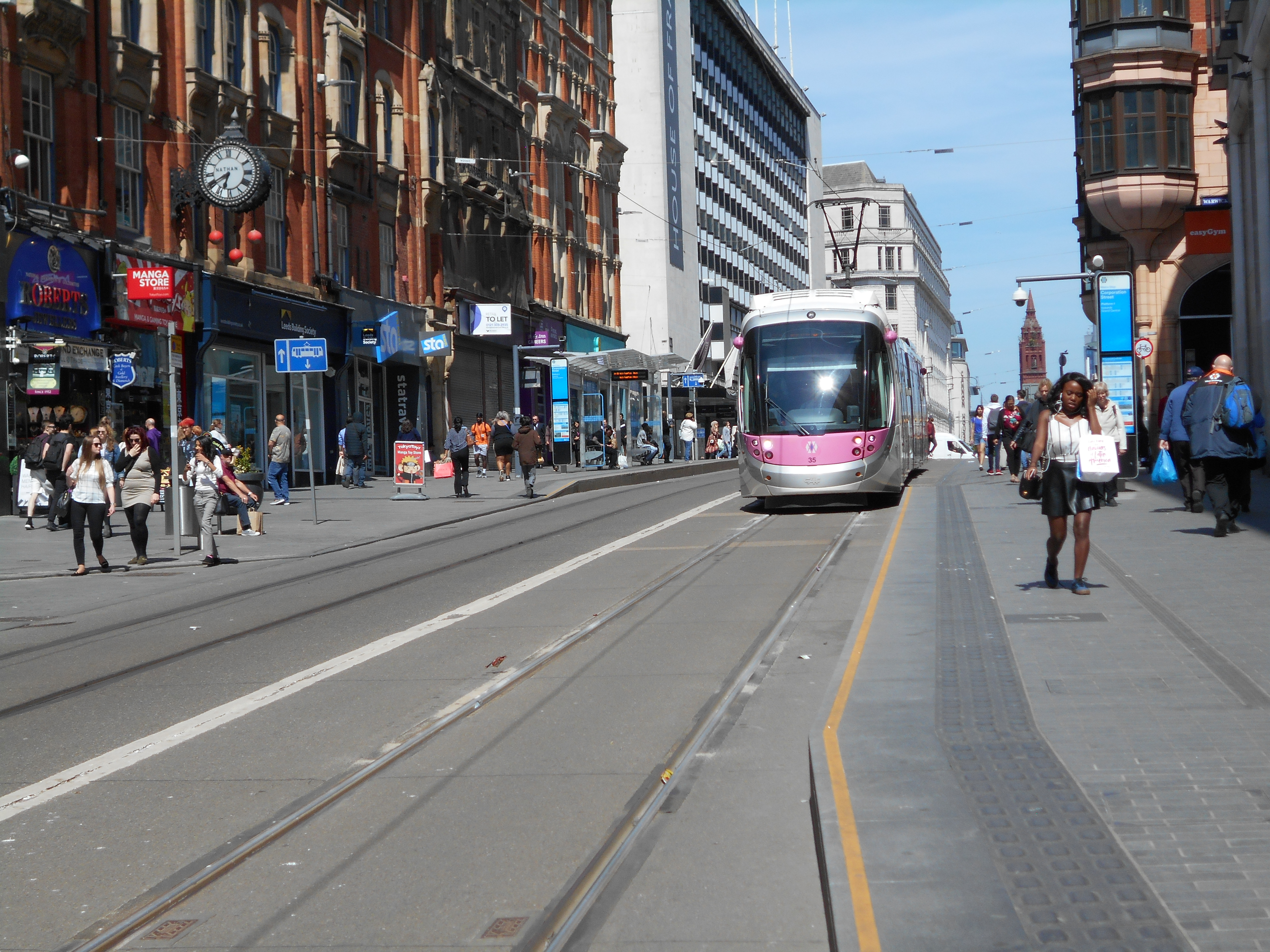 An Urbos 3 tram coming to stop at the inbound platform of Corporation street tram stop, as this platform is currently only used to set passengers down, it has no waiting shelter, the outbound platform can be seen to the left of the tram in the background.